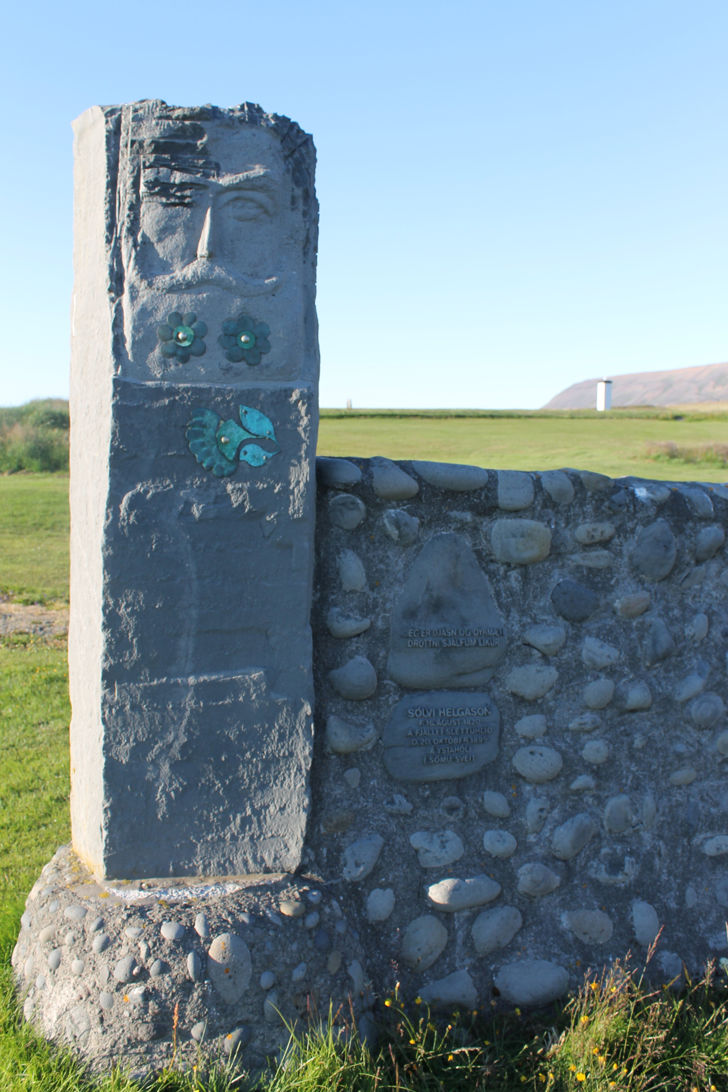 Memorial for Icelandic folk artist Sölvi Helgason (1820-1895) at Lónkot in Skagafjörður, Northern Iceland.